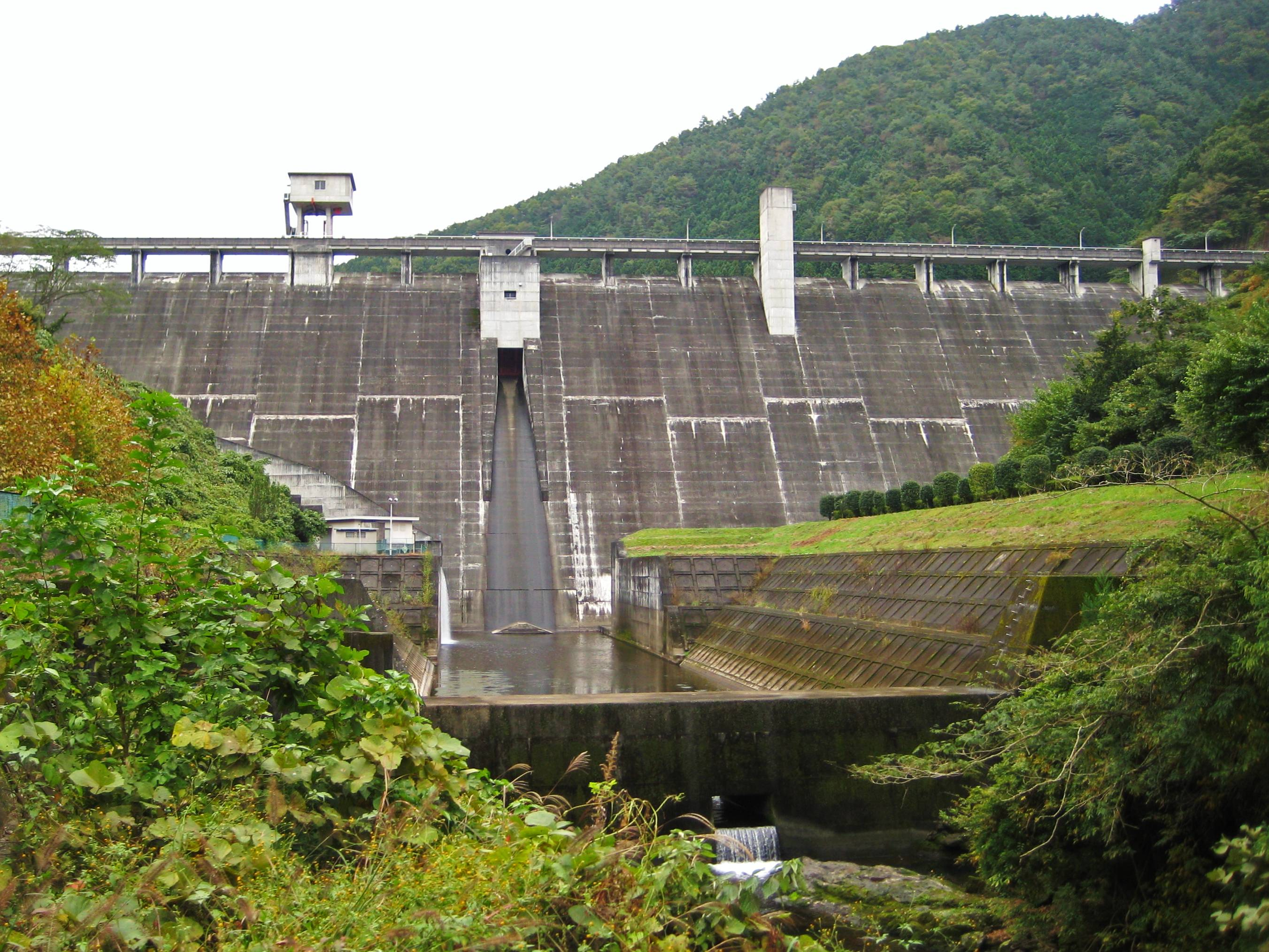 Kiryūgawa Dam.